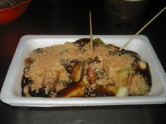 Picture of Rojak Penang